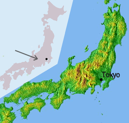 Location map of the Japanese Alps — a group of high mountain ranges on central Honshu, Japan.